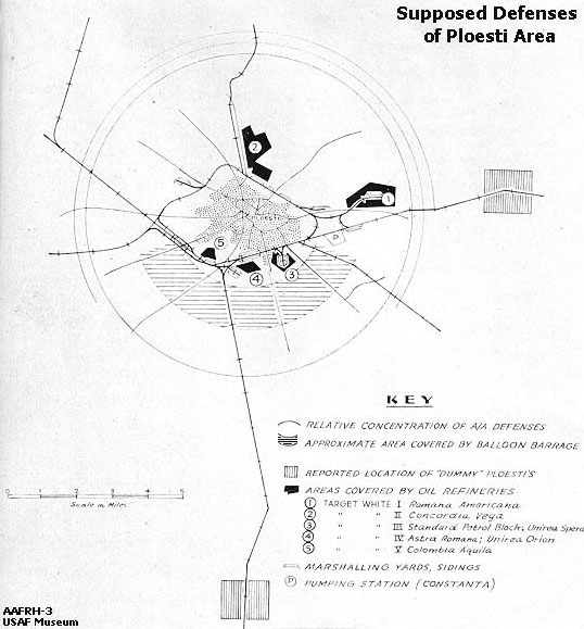 Supposed Defenses of Ploesti Area. (U.S. Air Force photo)